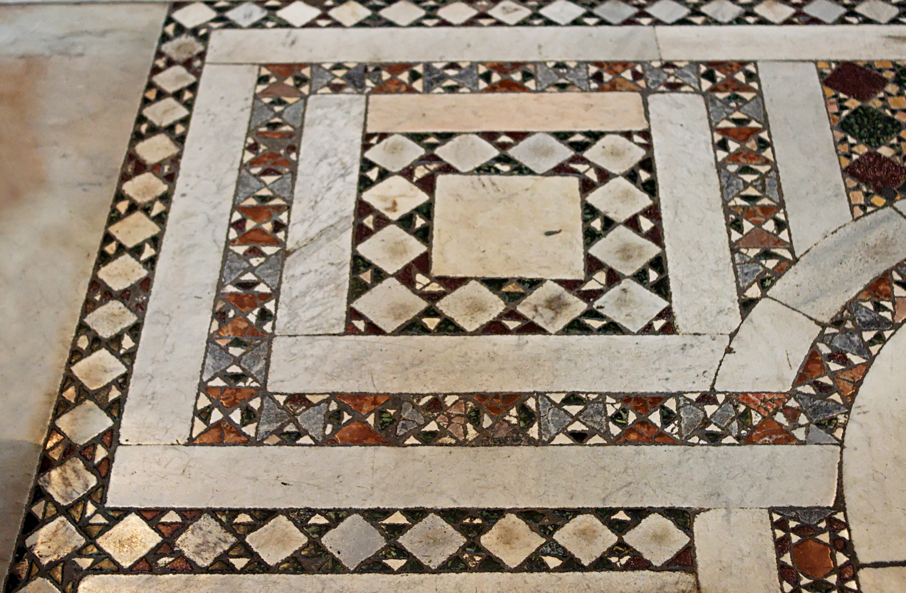 Cosmatesque pavement (12th century), central nave of the Basilica di Santa Maria Maggiore.